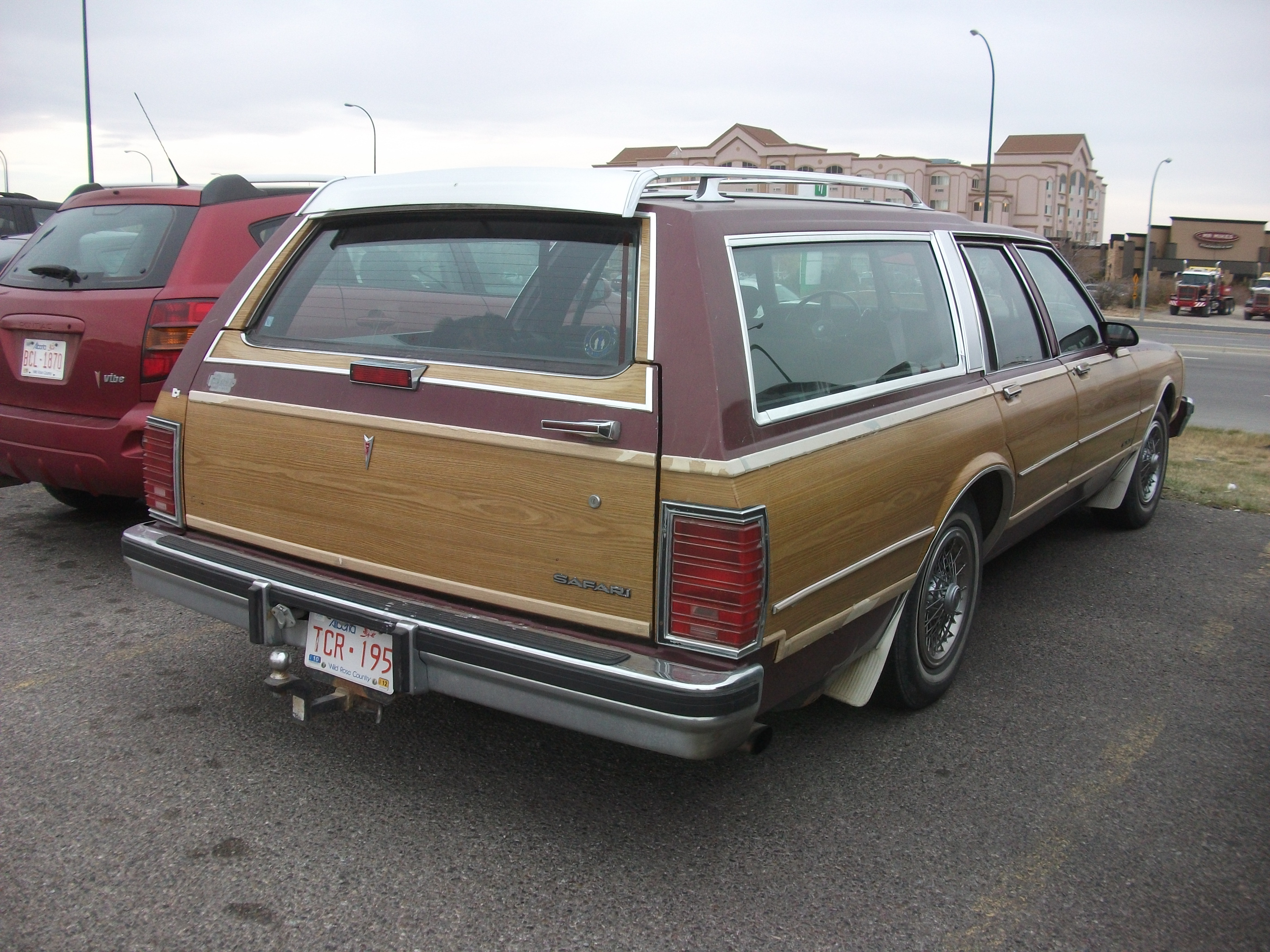 Pontiac Safari station wagon